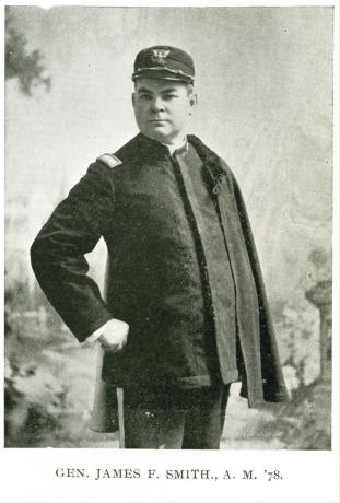 General James Francis Smith — as shown in "Souvenir of Santa Clara College" published for the College's golden jubilee in 1901. James F. Smith was appointed by Teddy Roosevelt. Is survived by his great grand-children who currently reside in California. Before 1923, Image of the Public Domain.